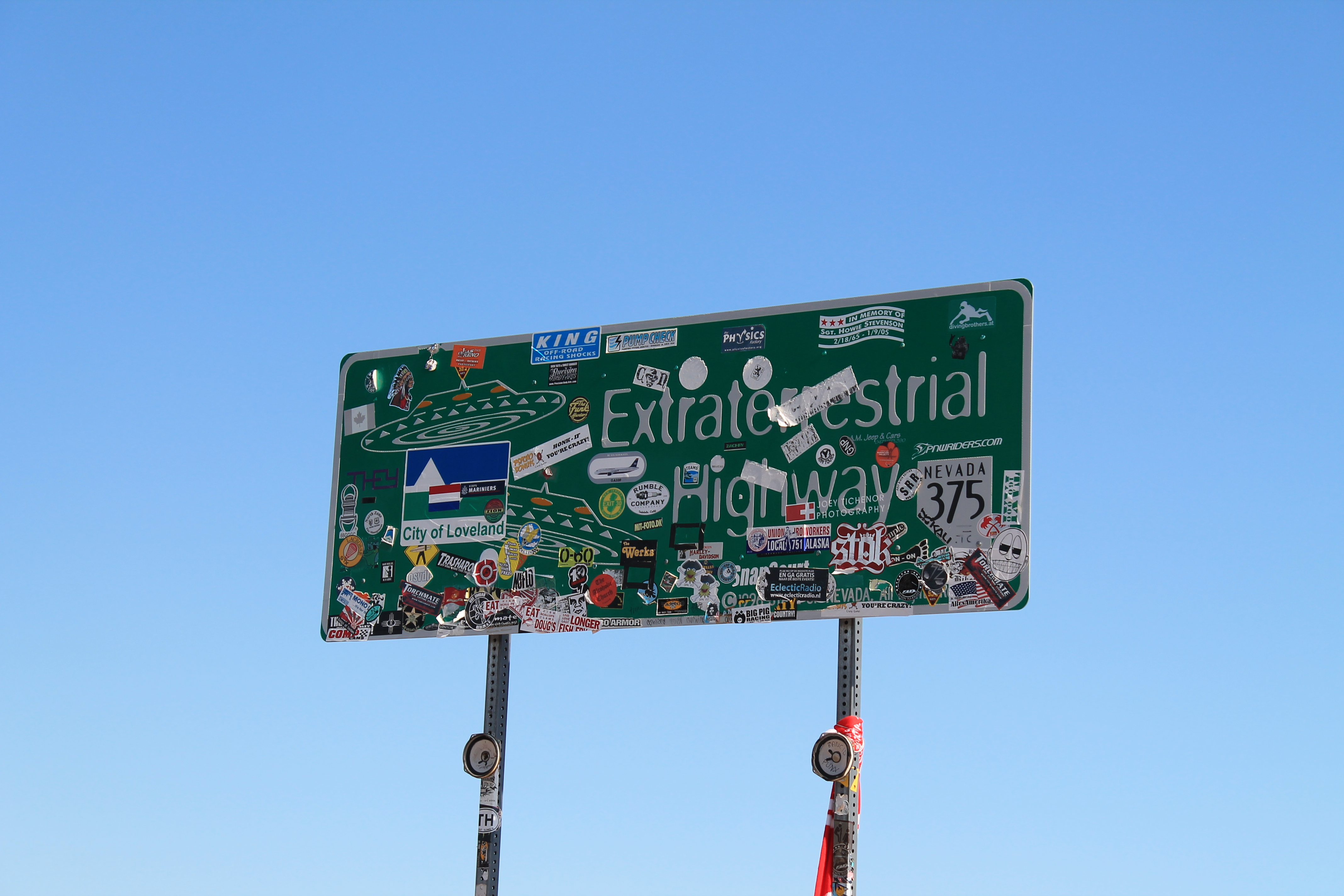 Extraterrestrial Highway (State Route 375)